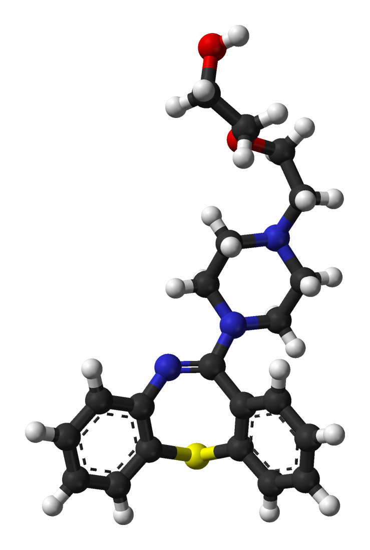 Ball-and-stick model of the quetiapine molecule. X-ray diffraction data from K. Ravikumar and B. Sridhar (October 2005). "Quetiapine hemifumarate". Acta. Cryst. 'E61' (10): o3245-o3248.